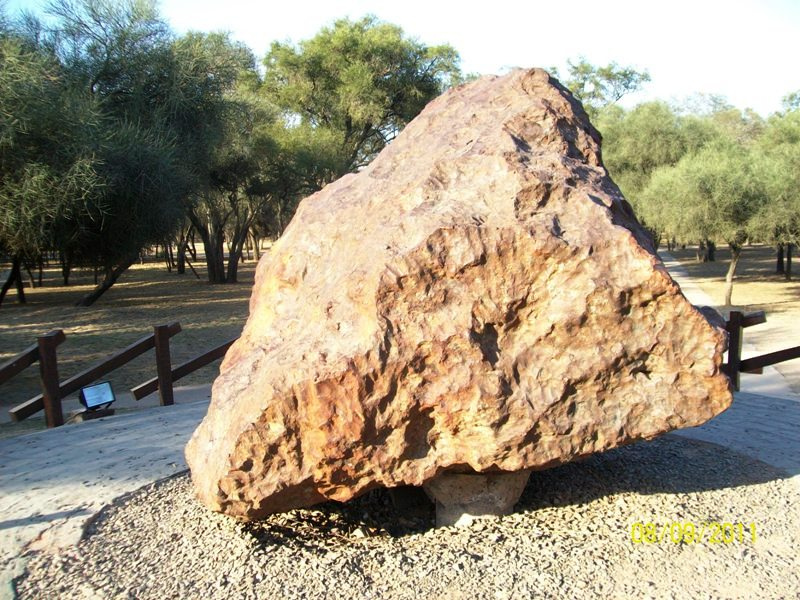 Campo del Cielo meteorite, El Chaco fragment.